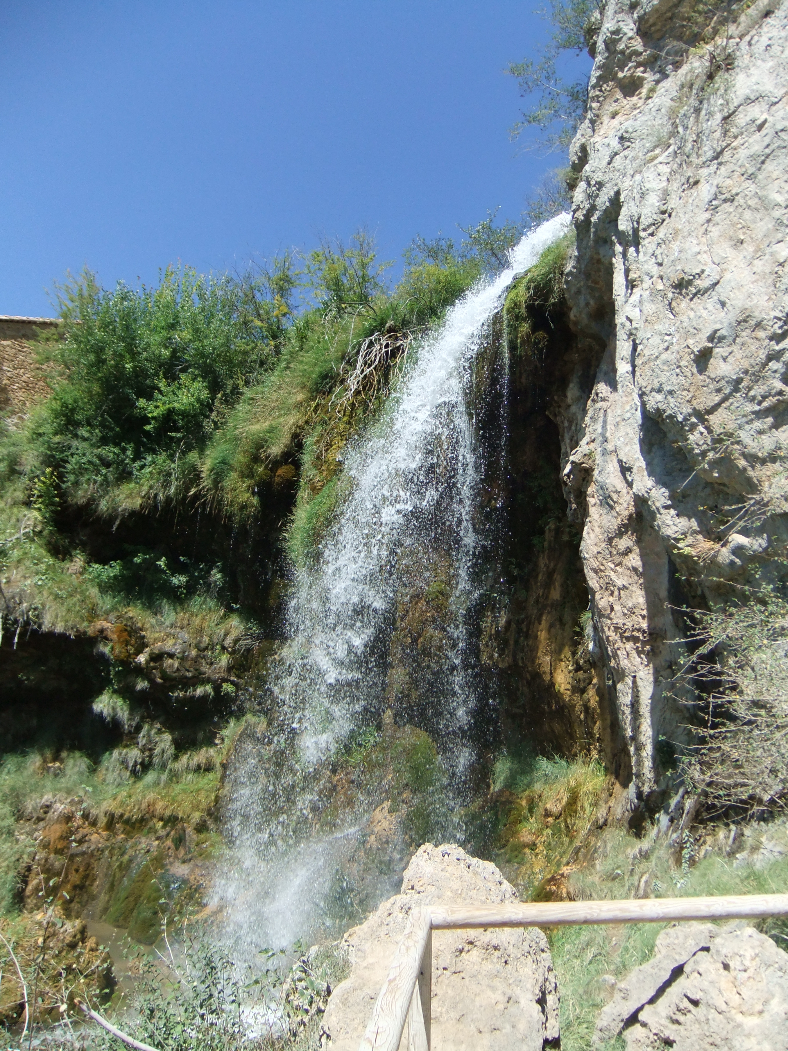 "Chorrera" falls in Tragacete. Xúquer river.